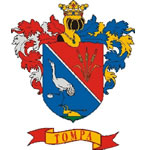 Coat of arms of Tompa, Hungary